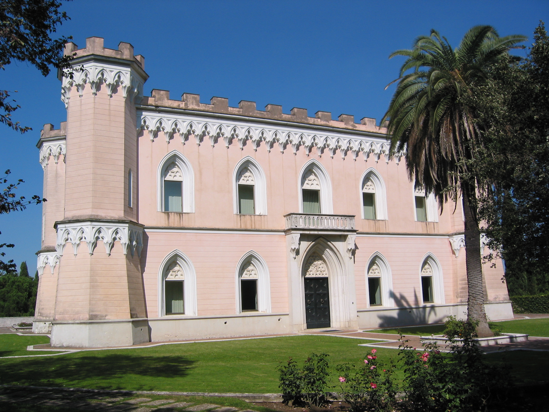 Benevento BN, Italy